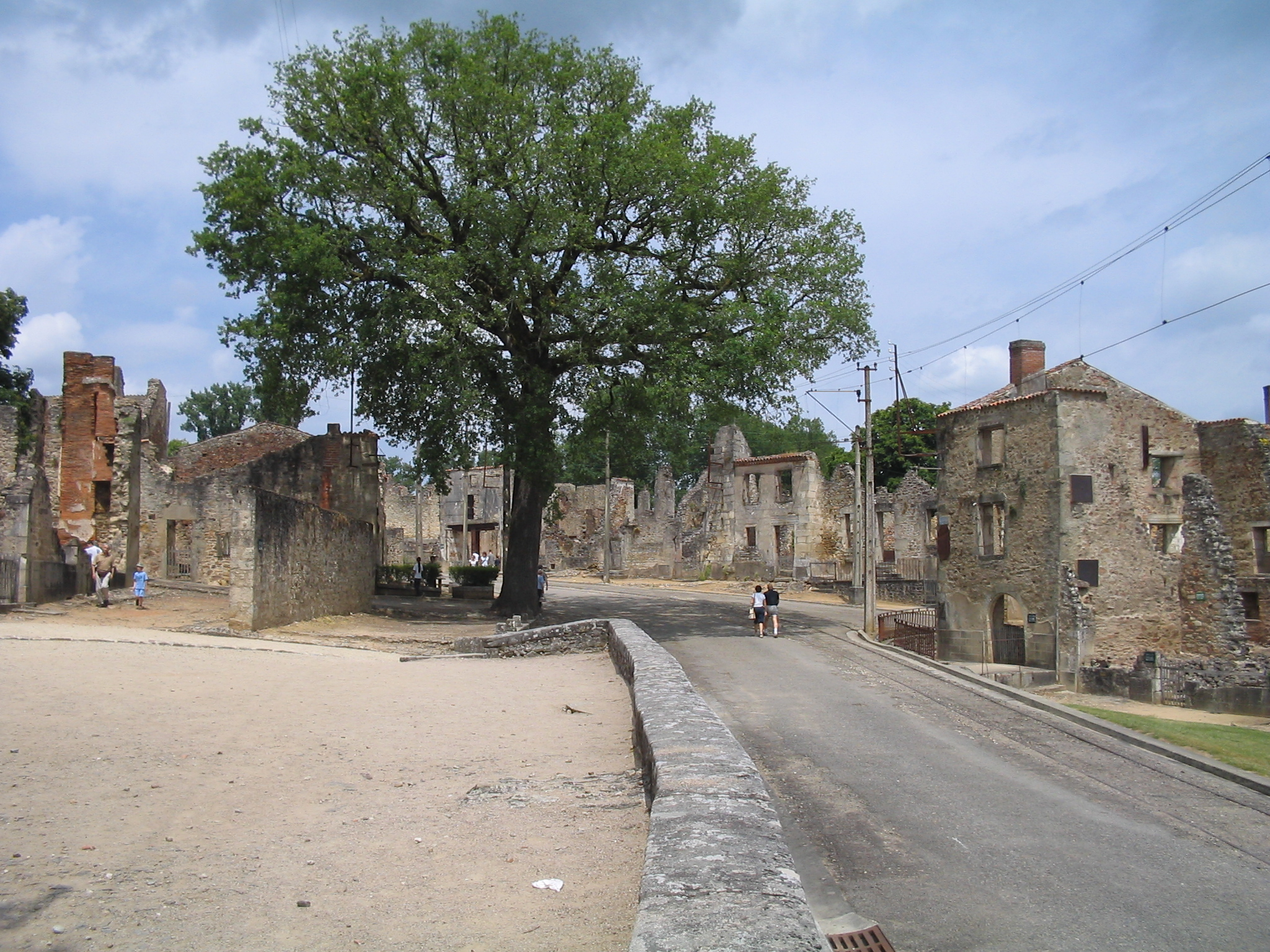 The main street of Oradour-sur Glane, just outside the church. This is a photograph which I took during a visit to the French village Oradour-sur-Glane on June 11 2004, exactly 60 years after its destruction by the German army during World War II.